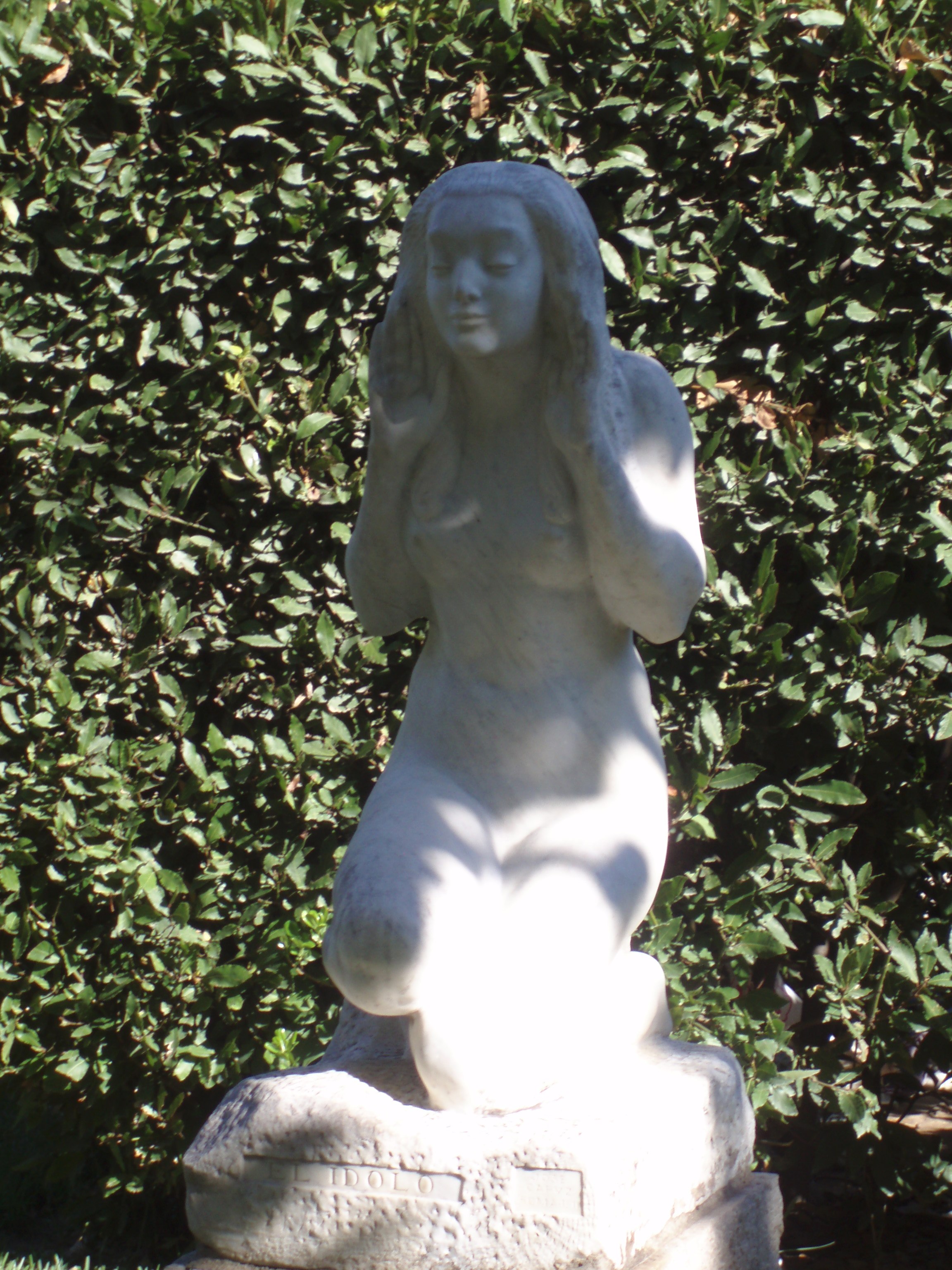 "El ídolo", sculpture of José Capuz Mamano (1884-1964)